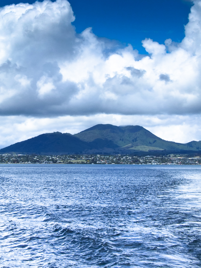 Mount Tauhara, taken from lake Taupo. Mount Tauhara is a dormant stratovolcano, reaching 3,569 feet (1,088 m) above sea level.